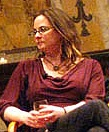 Me So Hungry food blog